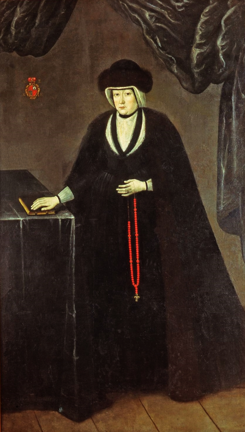 Portrait of Katarzyna Zamoyska née Ostrogska (1602–1642).